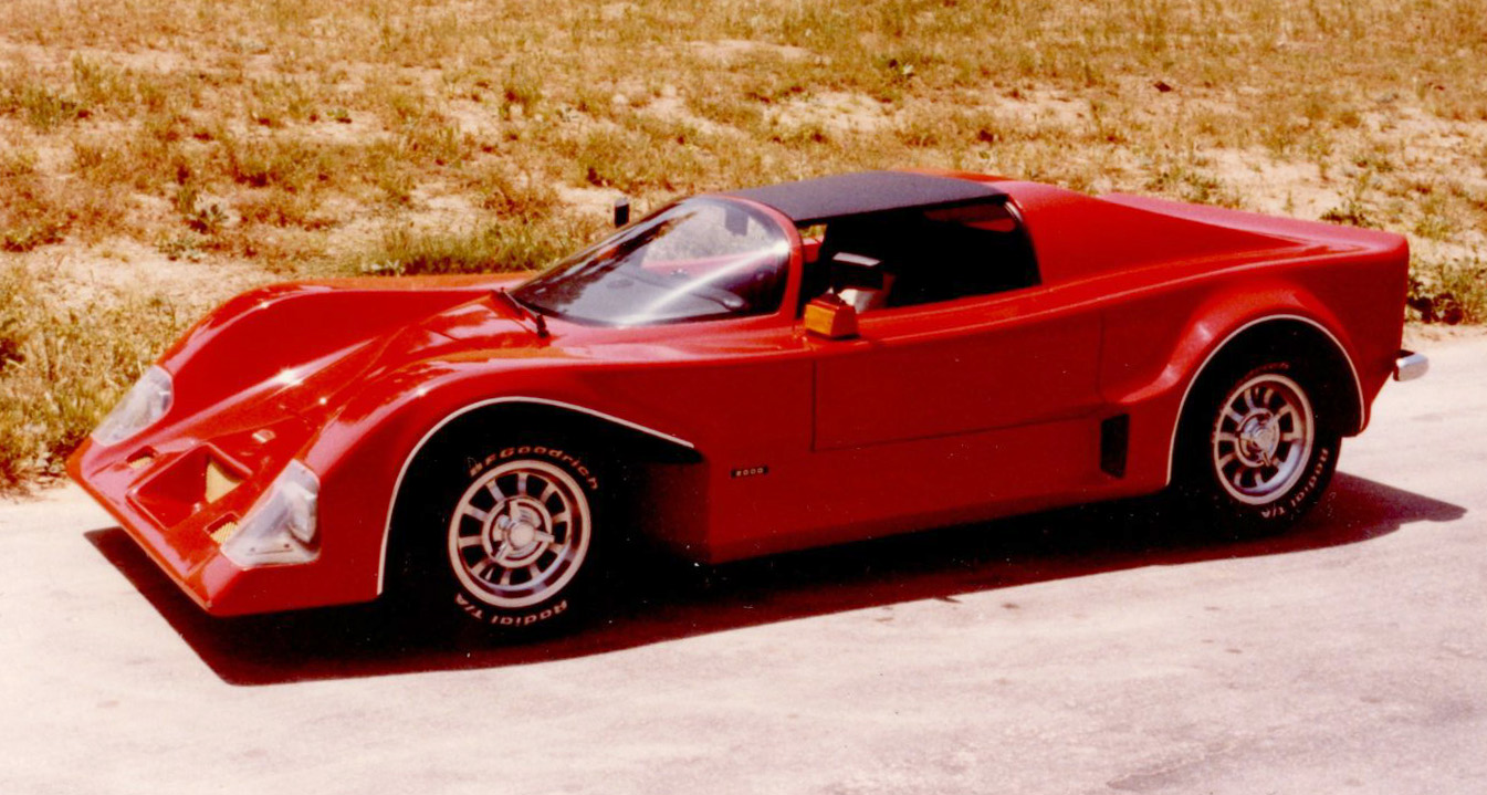 1980 Willow with removeable top in place, Chatsworth, CA 5-21-80.